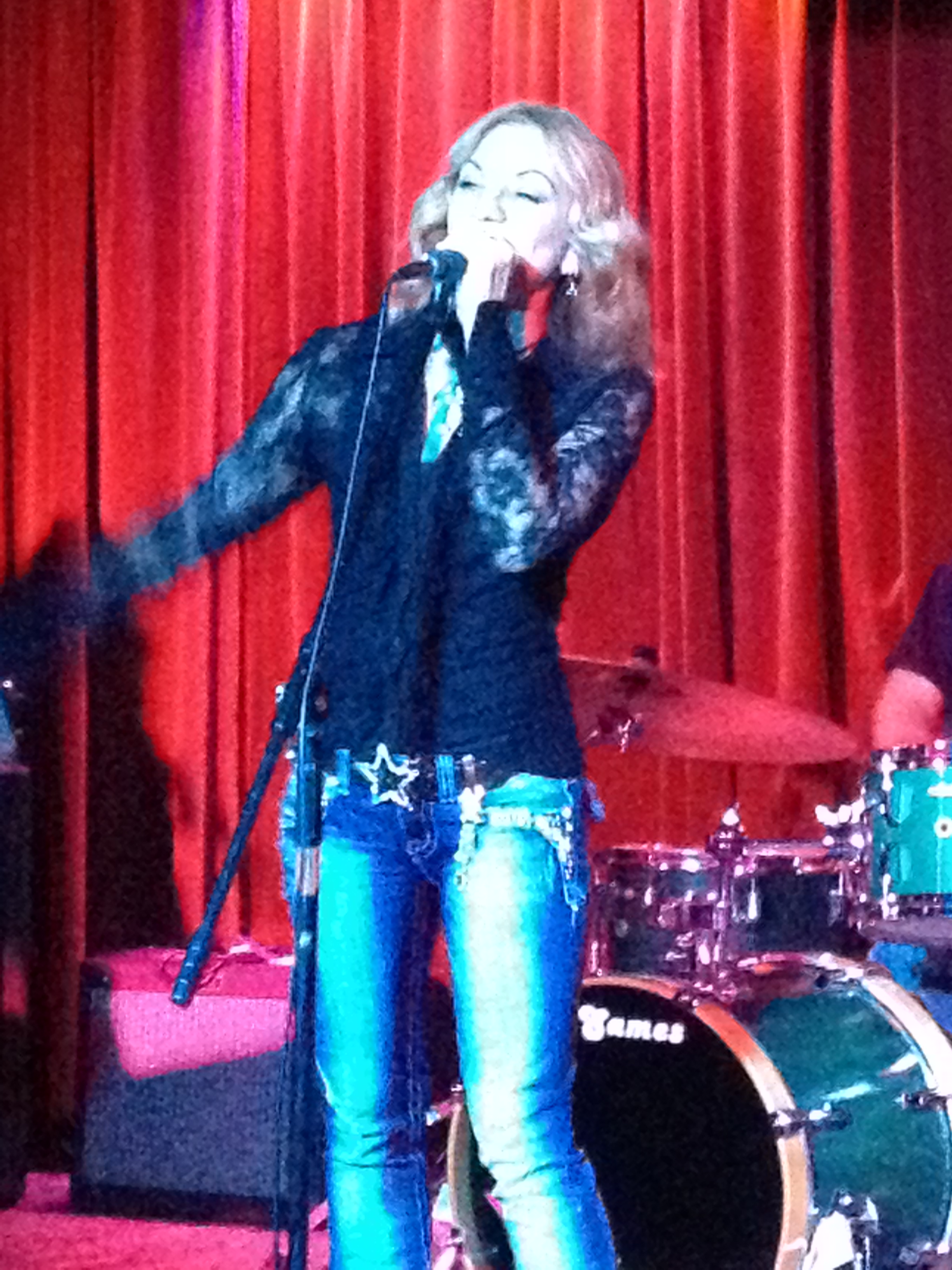 Jpeg of Lisa Guyer Performing